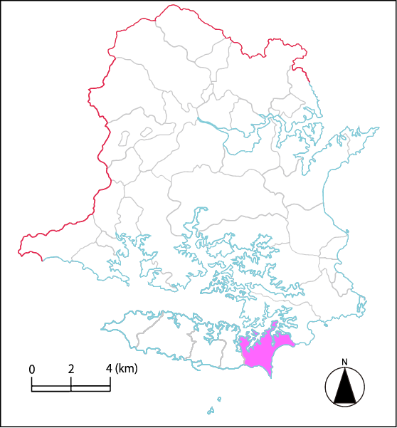 This is the map of Shimacho-Katada, Shima, Mie, Japan. This map also indicates the Katada elementary and junior high school district.